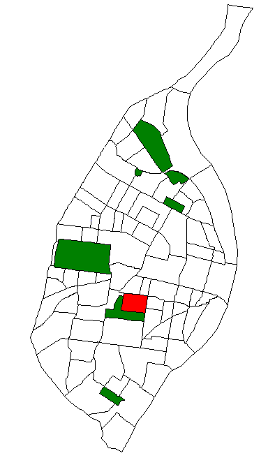 Map of St. Louis Neighborhood #27